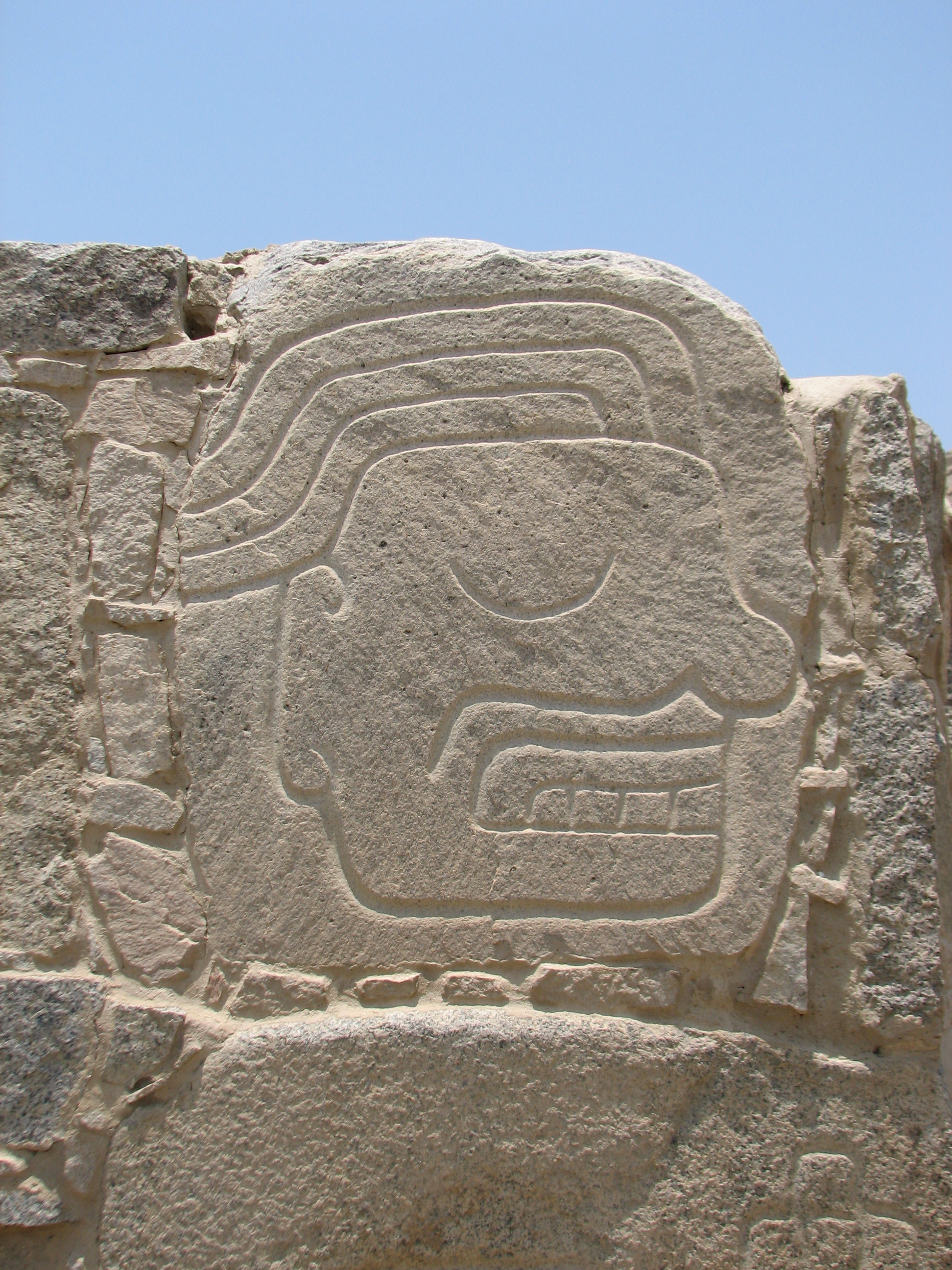 Sechín Archaeological site (relief - head profile left)